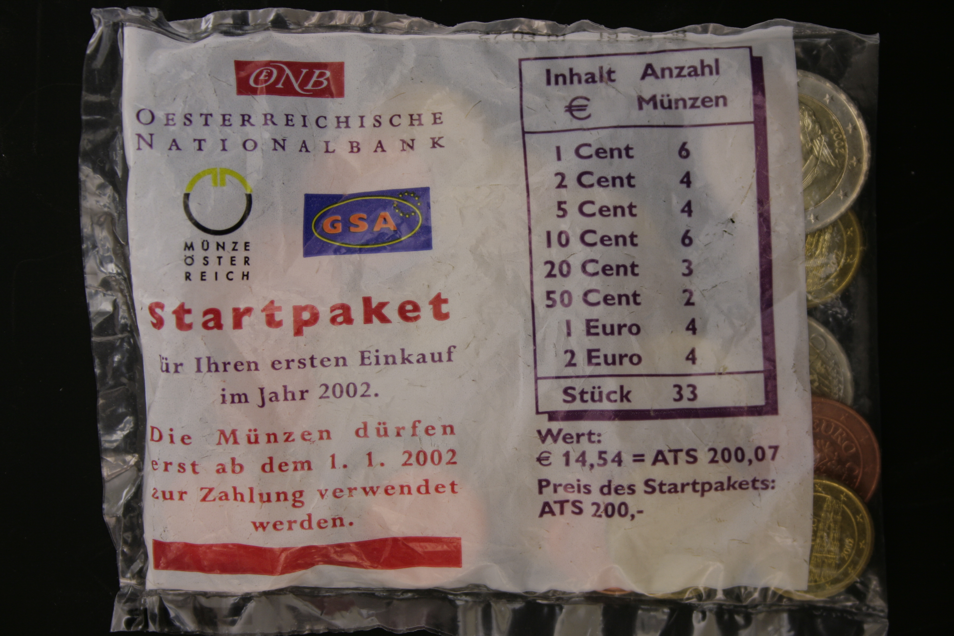 Austrian Euro Starterkit